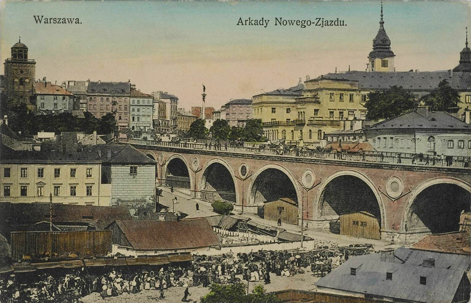 Nowy Zjazd Street in Warsaw